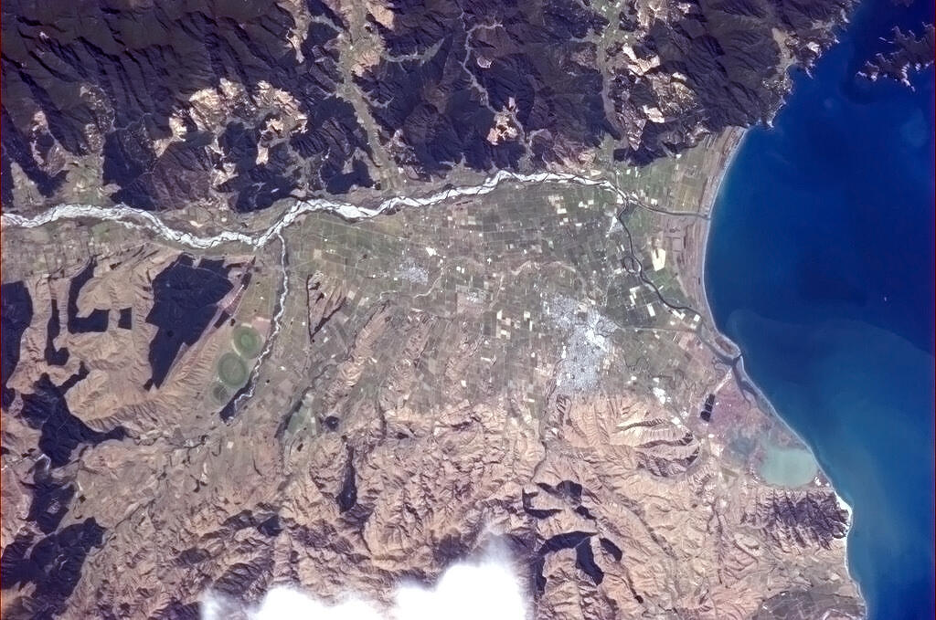 Blenheim, New Zealand seen from the International Space Station